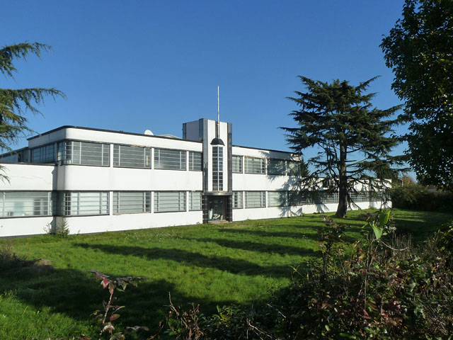 MAN - ERF truck centre